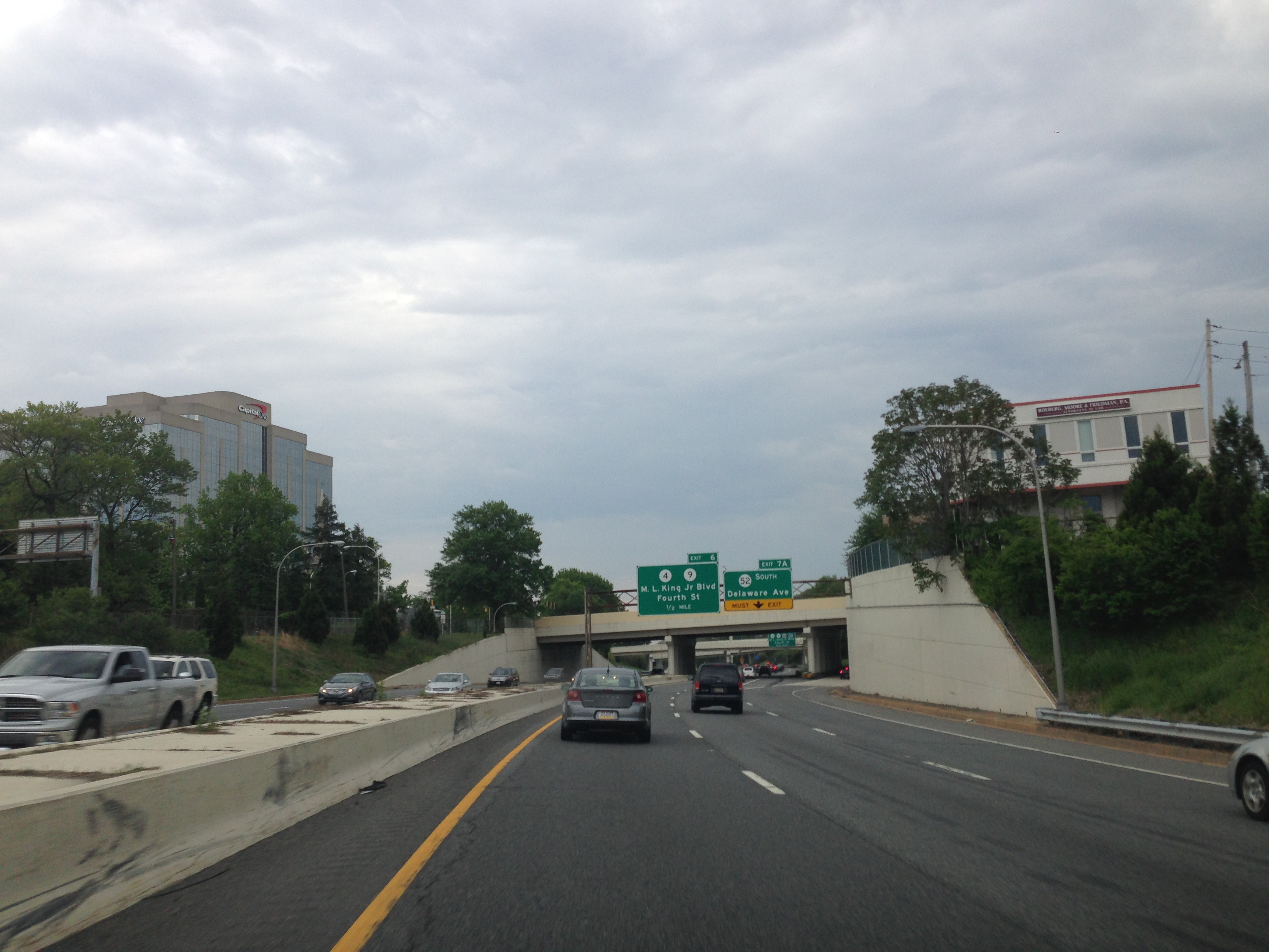 View south along Interstate 95 entering Wilmington, Delaware